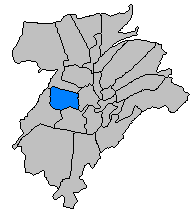 Map of Luxembourg City, Luxembourg, with the boundaries of the city's twenty-four quarters demarcated and the quarter of Belair highlighted in blue.